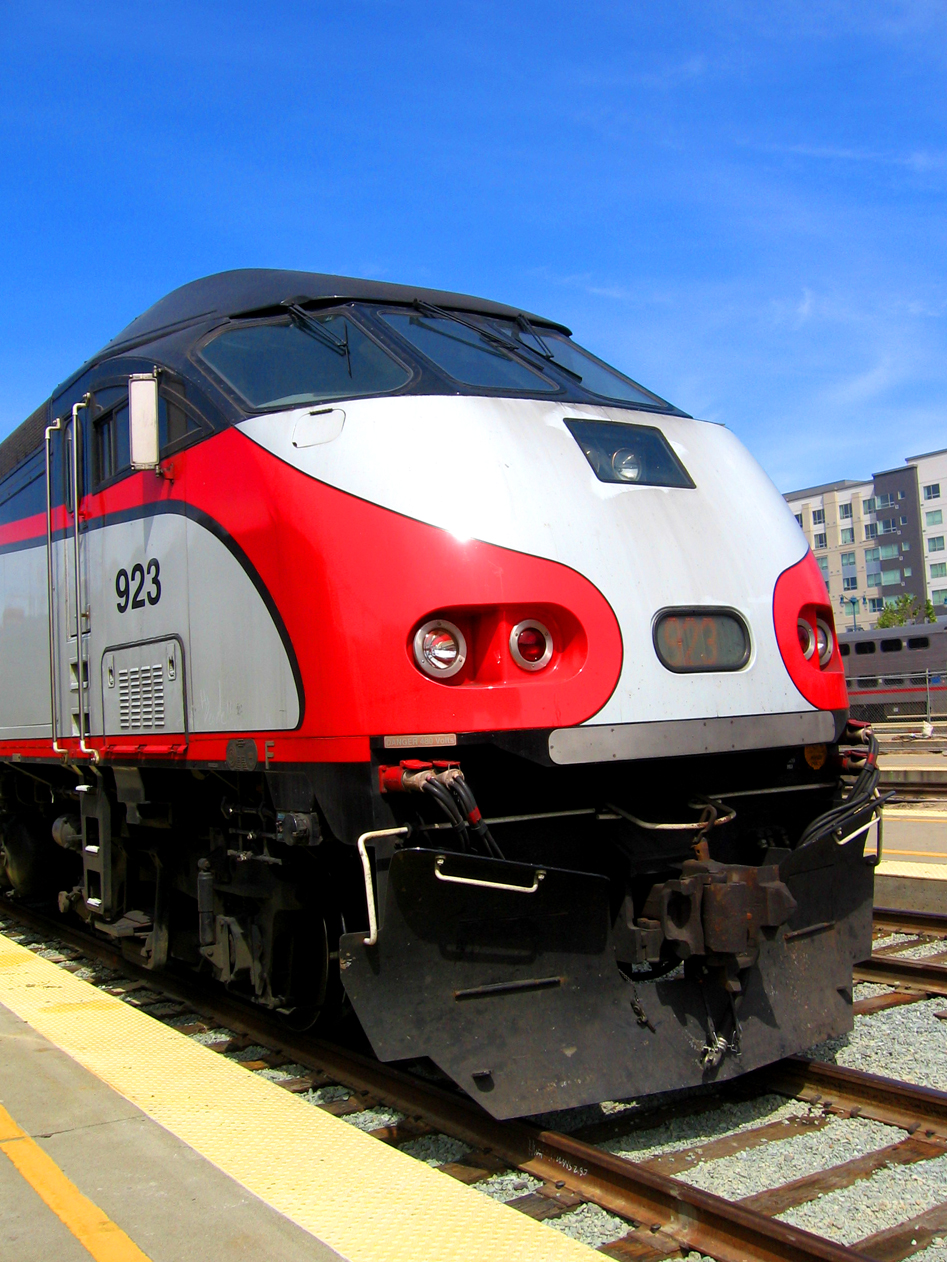 Caltrain MPI MP36PH-3C 923 at San Francisco station